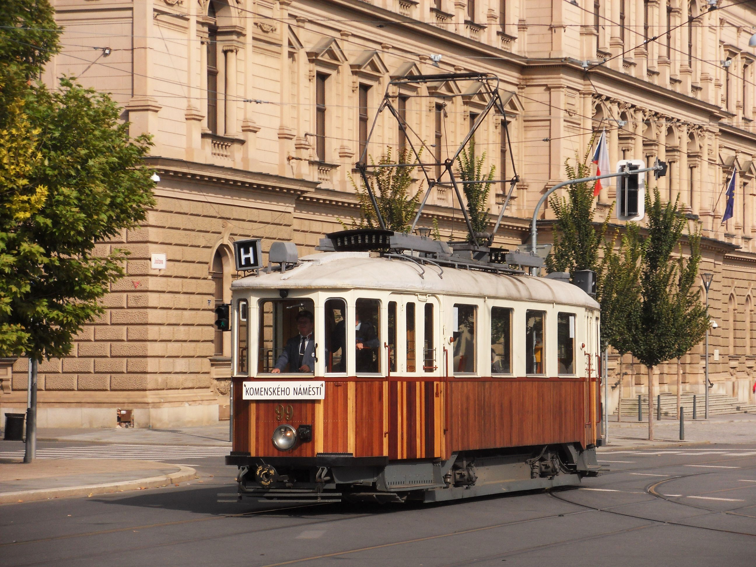 Historical tram No. 99, Brno, Czech Republic - OpenStreetMap(Info)